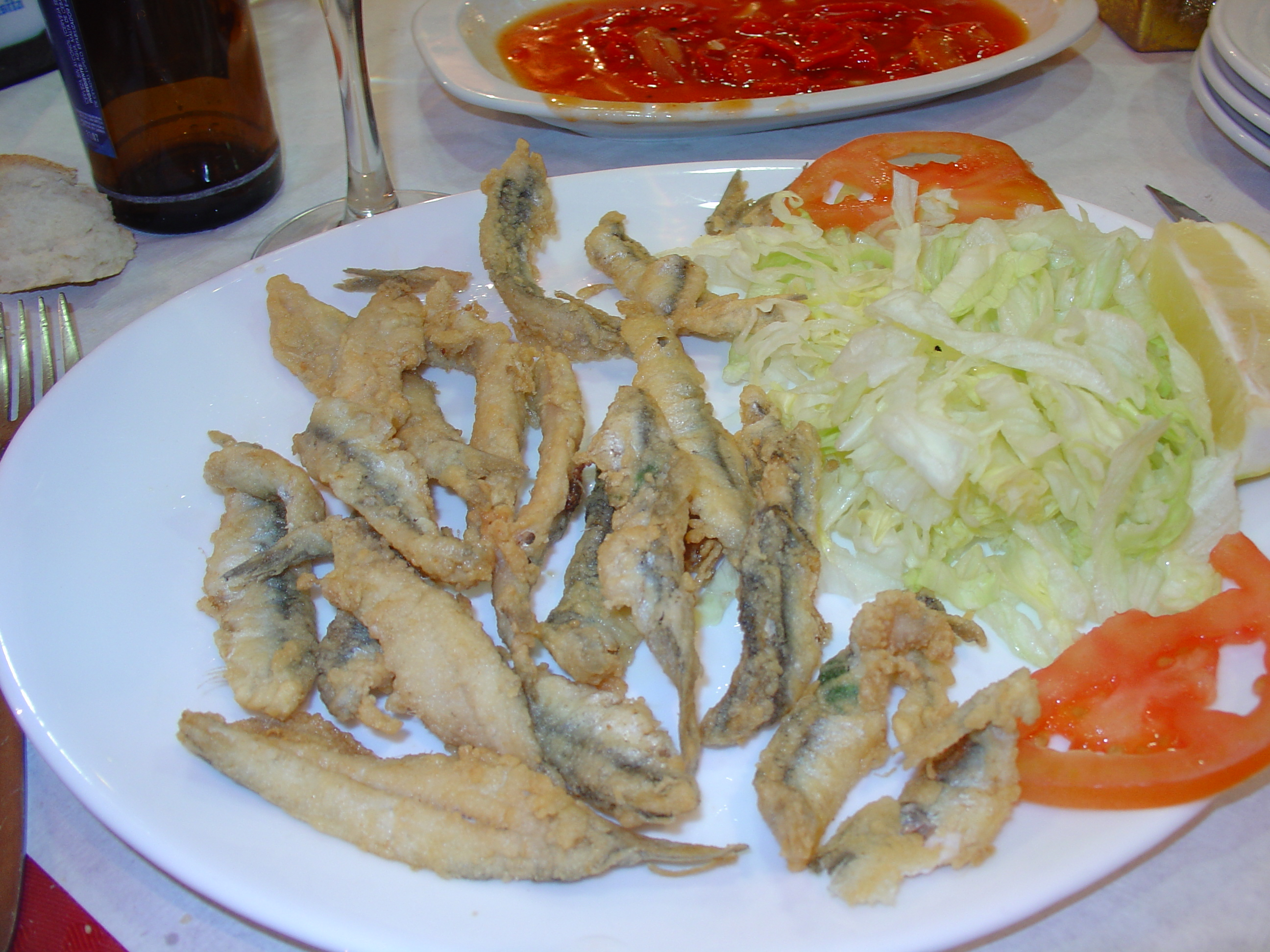 Freid fish, a typical dish in South Spain. It´s commonly pronounced `pescaíto frito´.